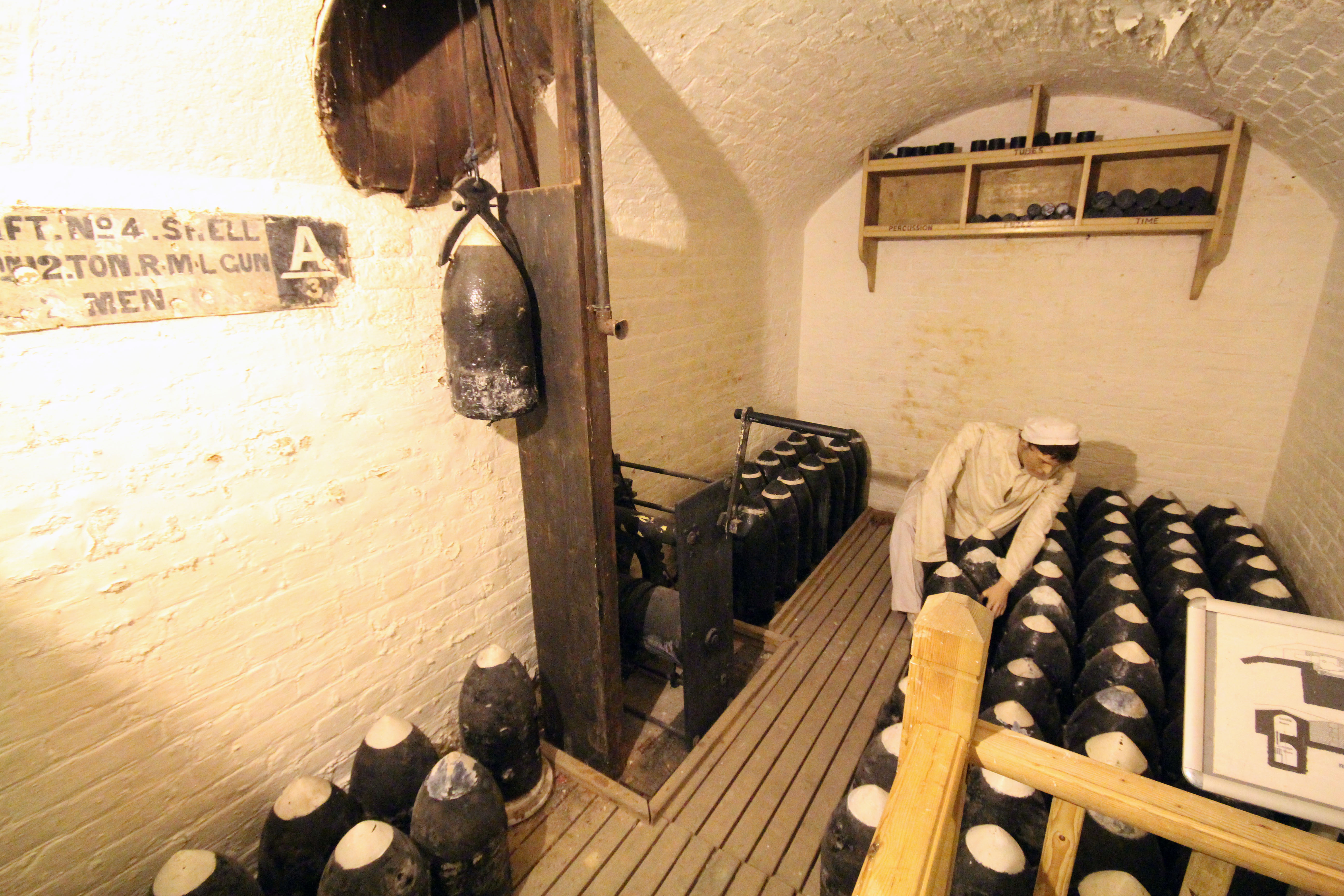 Shell room, New Tavern Fort